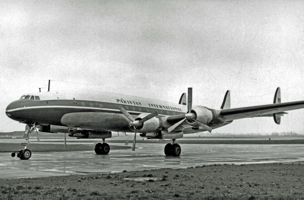 Pakistan International's first L1049C Super Constellation at London Heathrow Airport